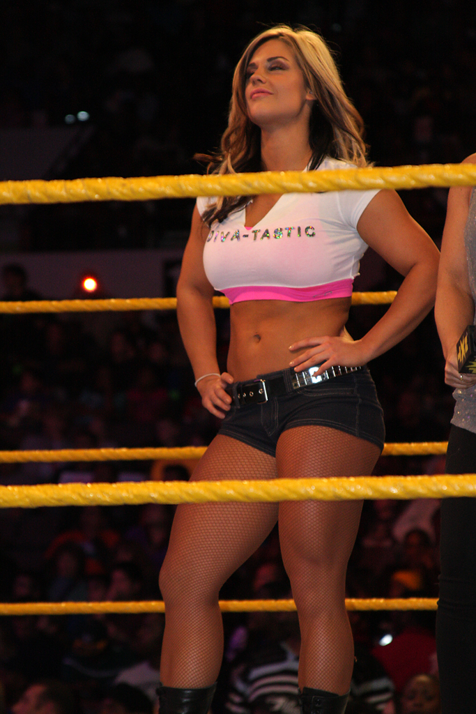 Kaitlyn (Celeste Bonin) on the November 30, 2010 episode of WWE NXT, which was the season finale of season 3.